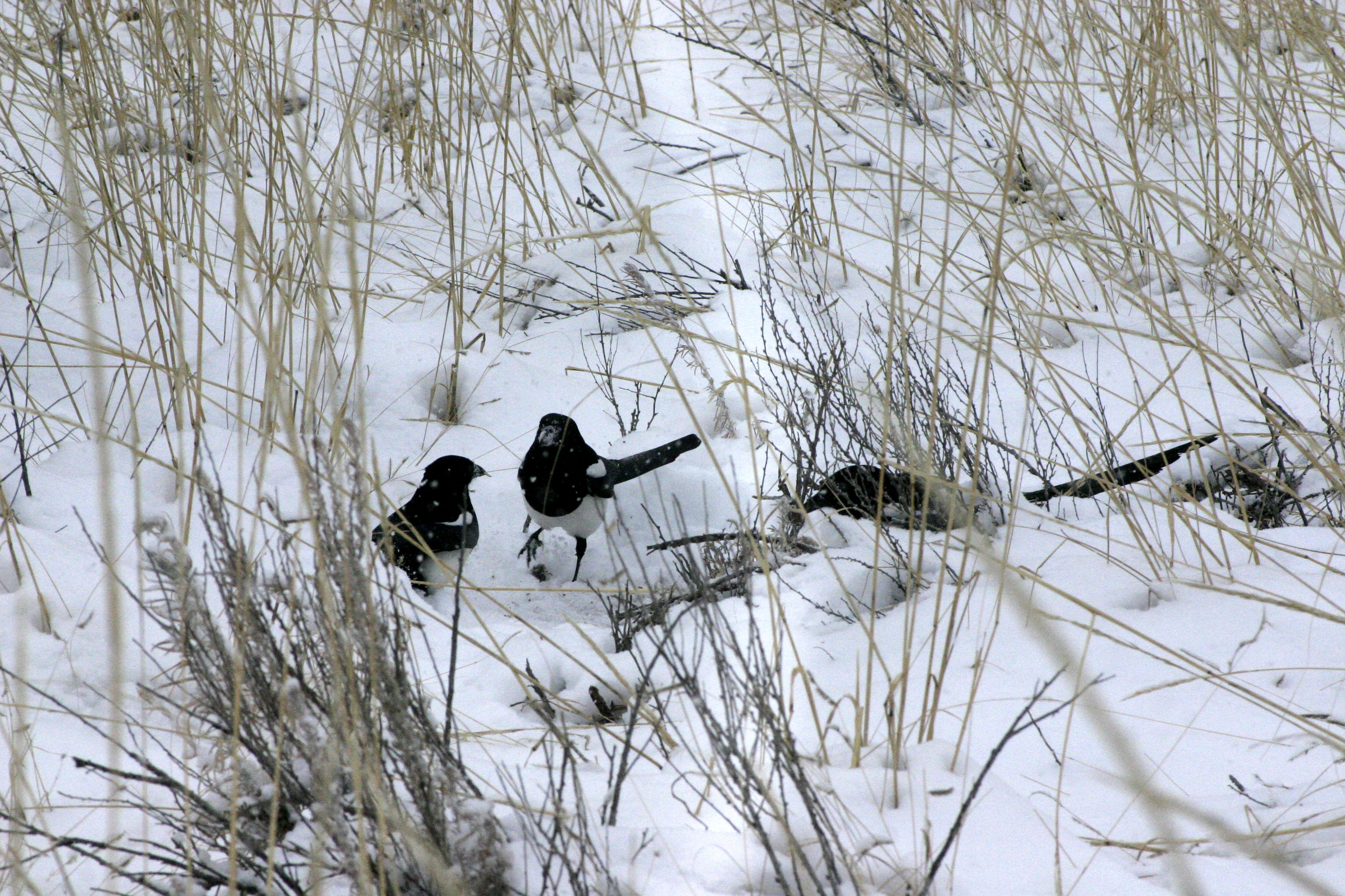 A group of Black-billed Magpies (Pica hudsonia) in the Garden of the Gods. Colorado Springs, United States.